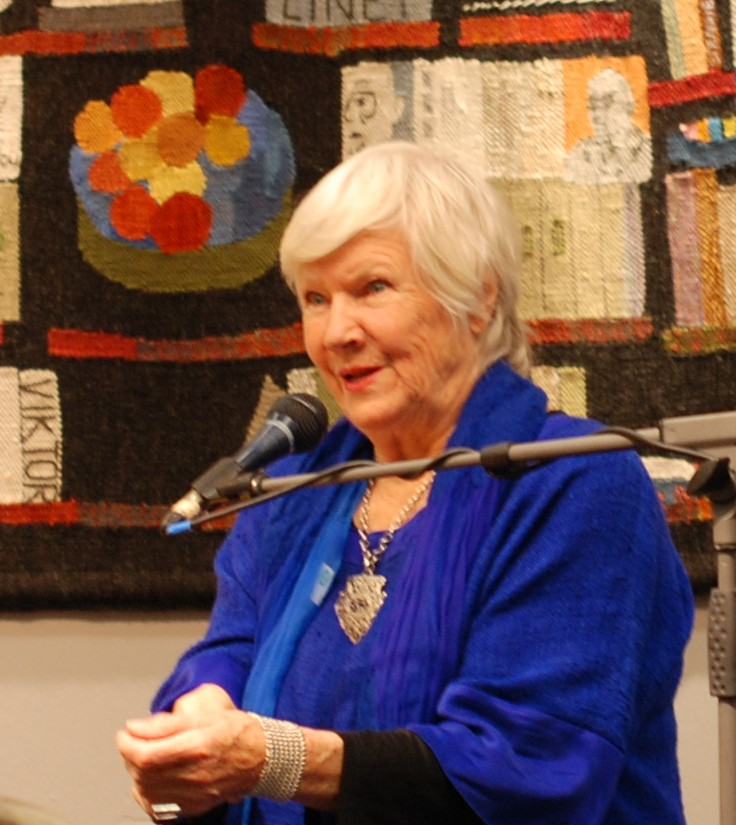 Swedish writer Birgitta Stenberg at Göteborg Book Fair 2010